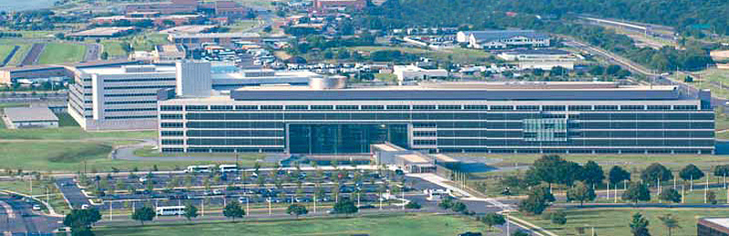 The bird's eye view of the Defense Intelligence Agency (DIA) headquarters in Washington, DC